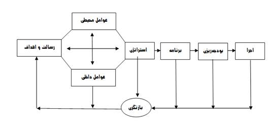 strategic planning2